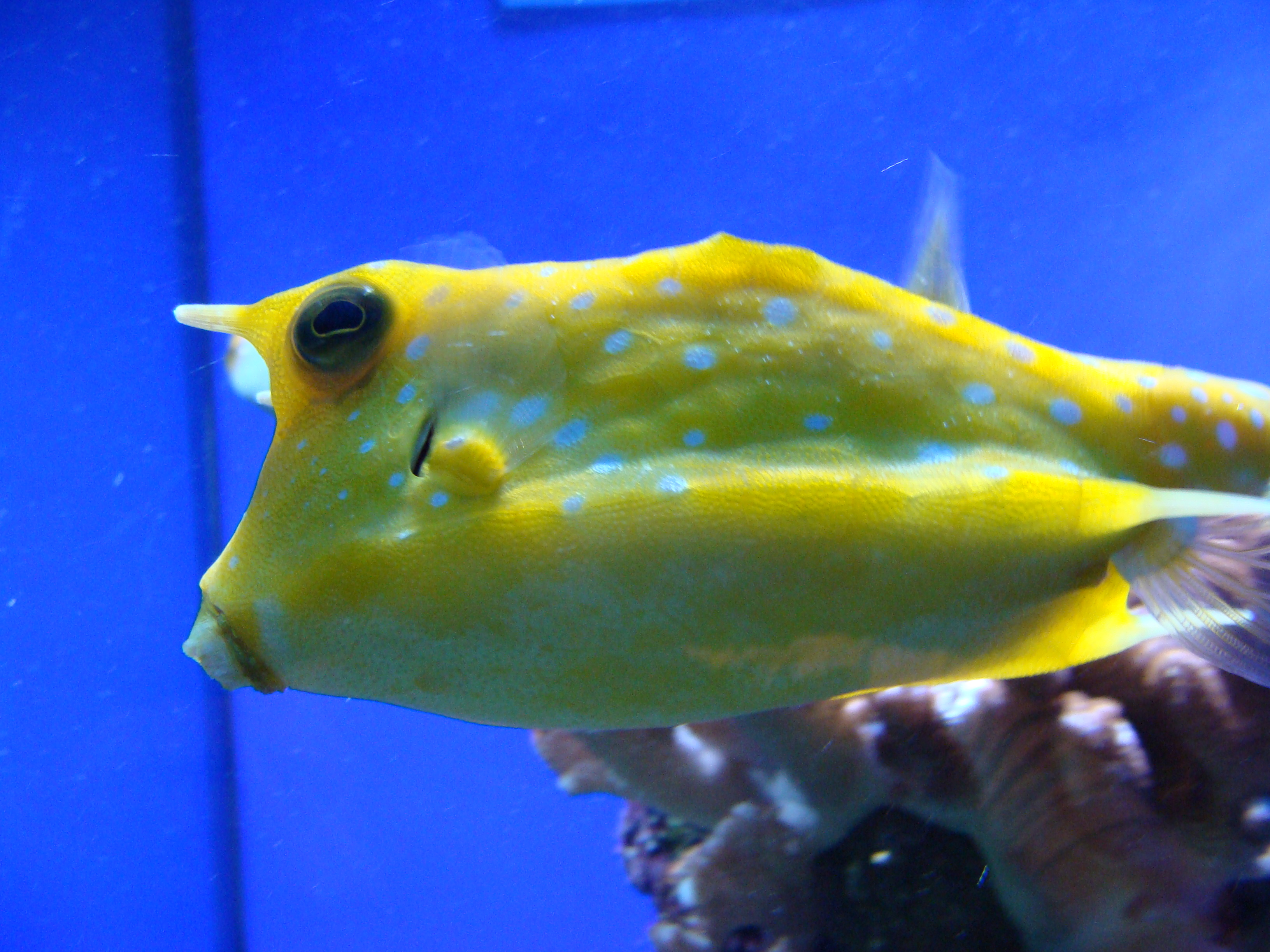 Lactoria cornuta (Longhorn cowfish) in Sala Humboldt of Aquarium Finisterrae (House of the Fishes), in Corunna, Galicia, Spain.